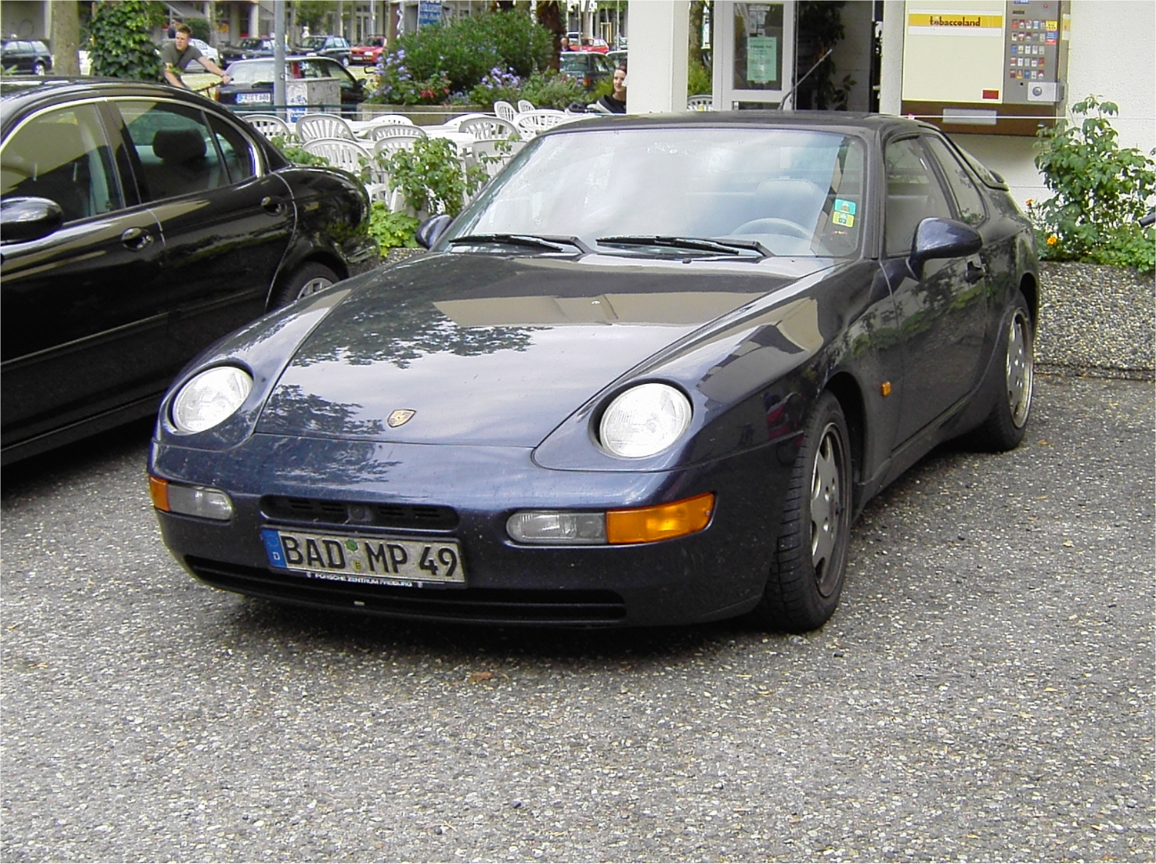 A Porsche 968